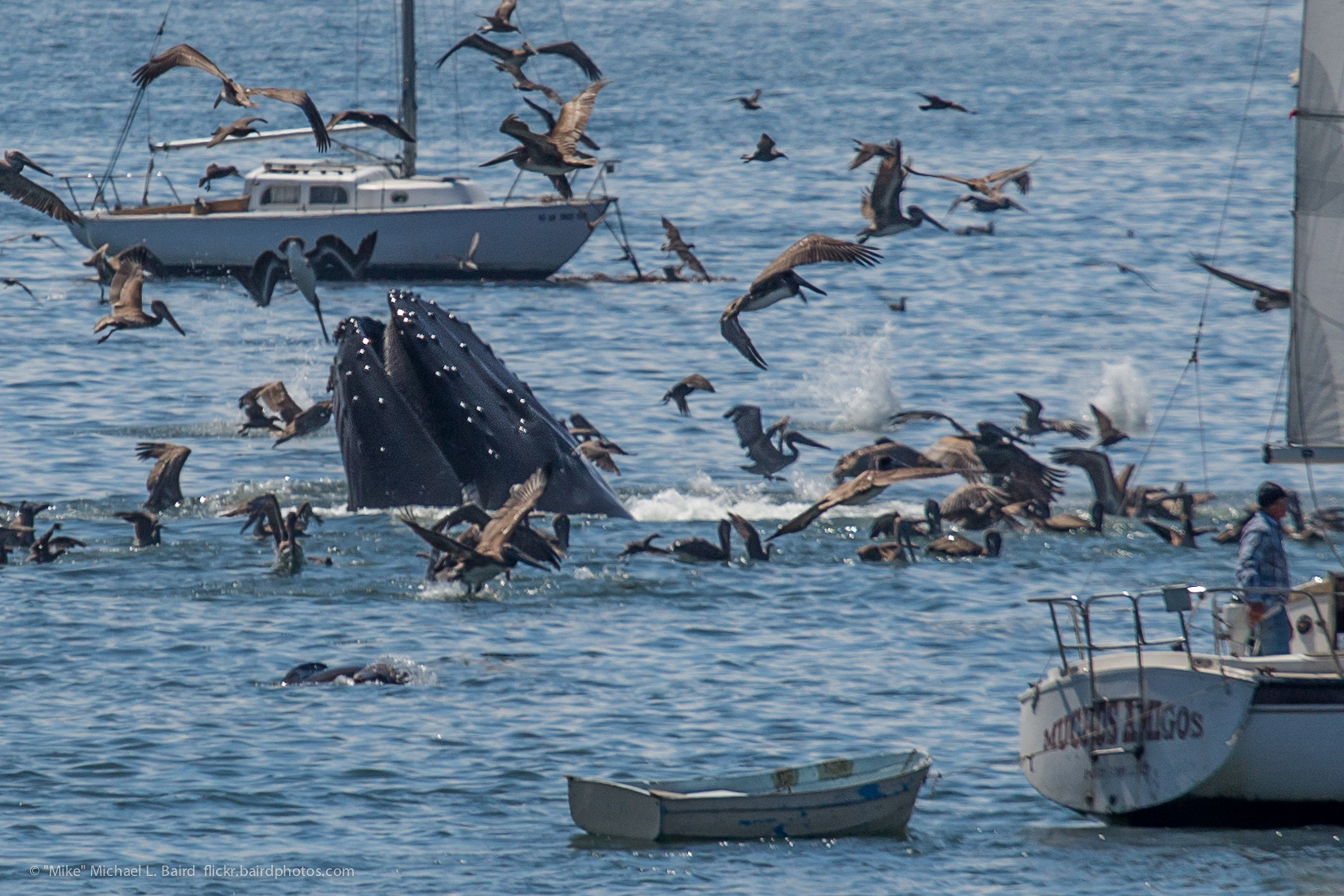 Humpback Whale (Megaptera novaeangliae) lunge feeding, as seen from the kayak launch ramp area between the Cal Poly Pier and the Ole Harford Port San Luis Pier in Port San Luis, (Avila) CA. Two Humpback Whales were lunge feeding amongst a bird and sea lion feeding frenzy in the bay fairly near shore, and amongst dozens of kayakers and Standup Paddle (SUP) boarders within striking distance. 22 August 2012. Photo © 2012 “Mike” Michael L. Baird, mike {at] mikebaird d o t com, , Canon 5D Mark III, with Canon EF 100-400mm f4.5-5.6L IS USM Telephoto Zoom Lens, with circular polarizer, lightweight tripod, IS, RAW. Aperture Priority wide open at f/5.6, ISO 400. See EXIF for obtained shutter speed.. To use this photo, see access, attribution, and commenting recommendations at - Please add comments/notes/tags to add to or correct information, identification, etc. Critique invited.